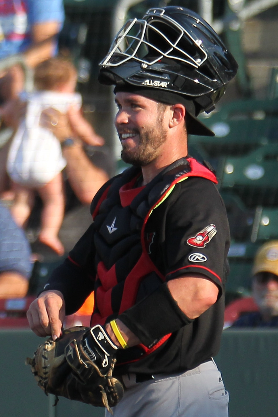 Catcher Beau Taylor of the Nashville Sounds Minda Haas Kuhlmann | 2018 USAGE INSTRUCTIONS: You are welcome to share or publish to your own site or social media account, but you MUST credit me, Minda Haas Kuhlmann. Twitter: @minda33. Instagram: minda.haas